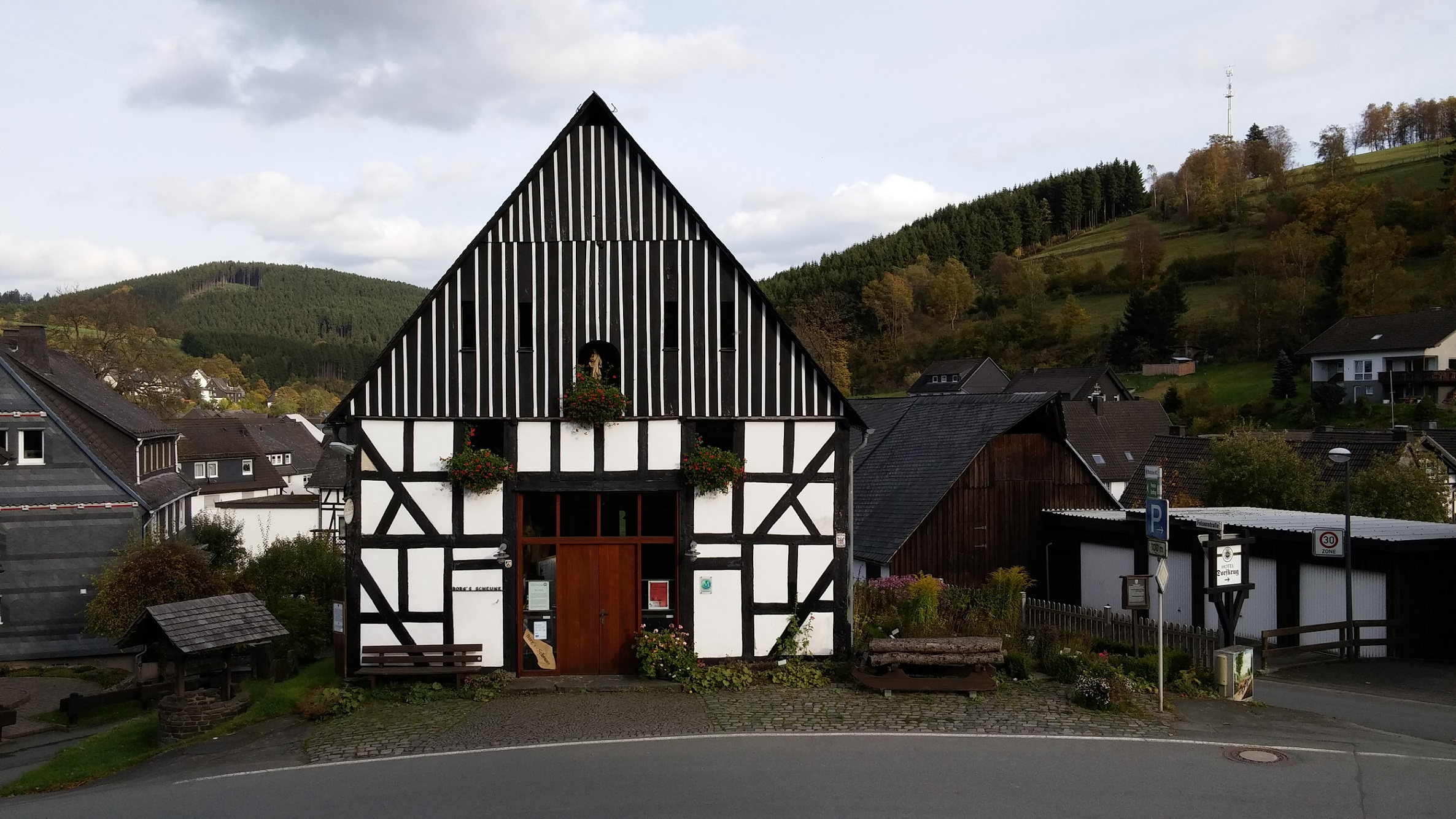 Museum Borg´s Scheune in Züschen/Winterberg